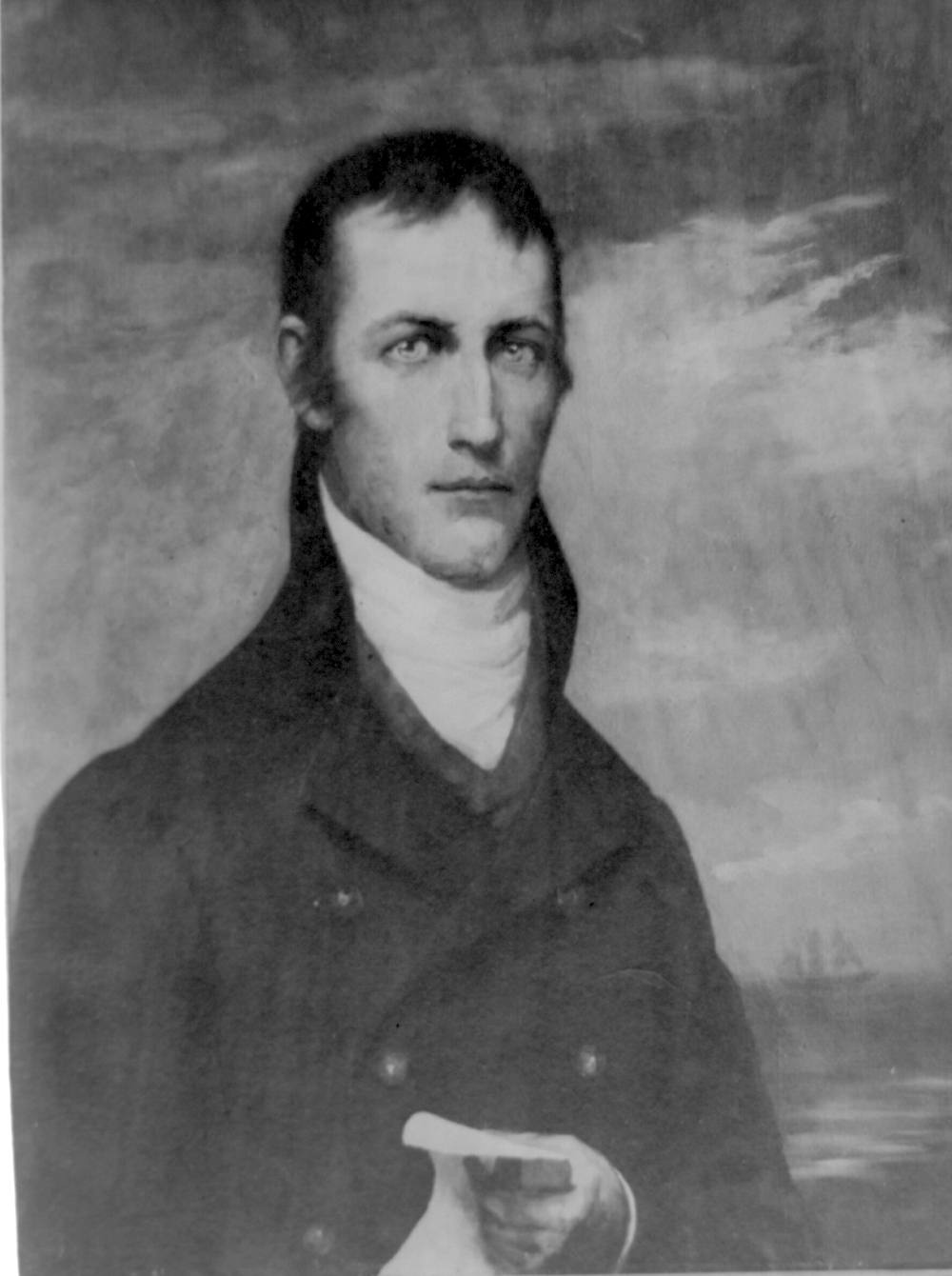 Jacob Crowninshield (1770-1808)